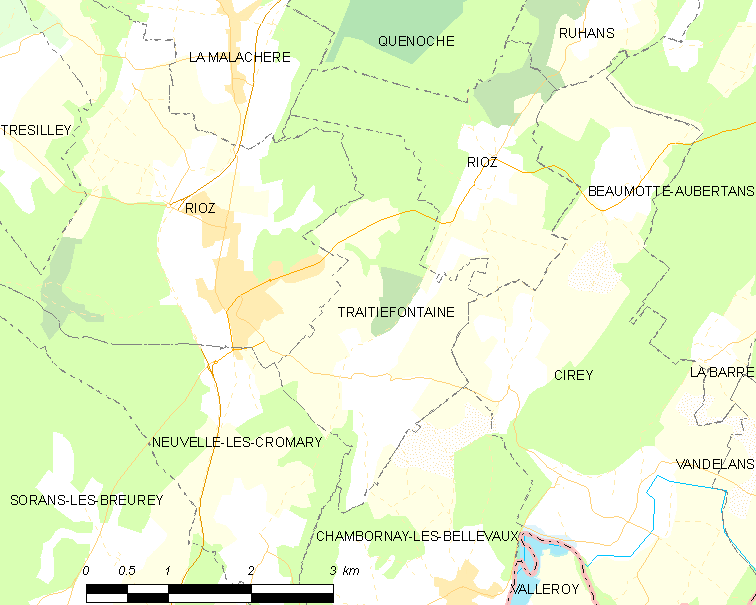 Map of French municipality